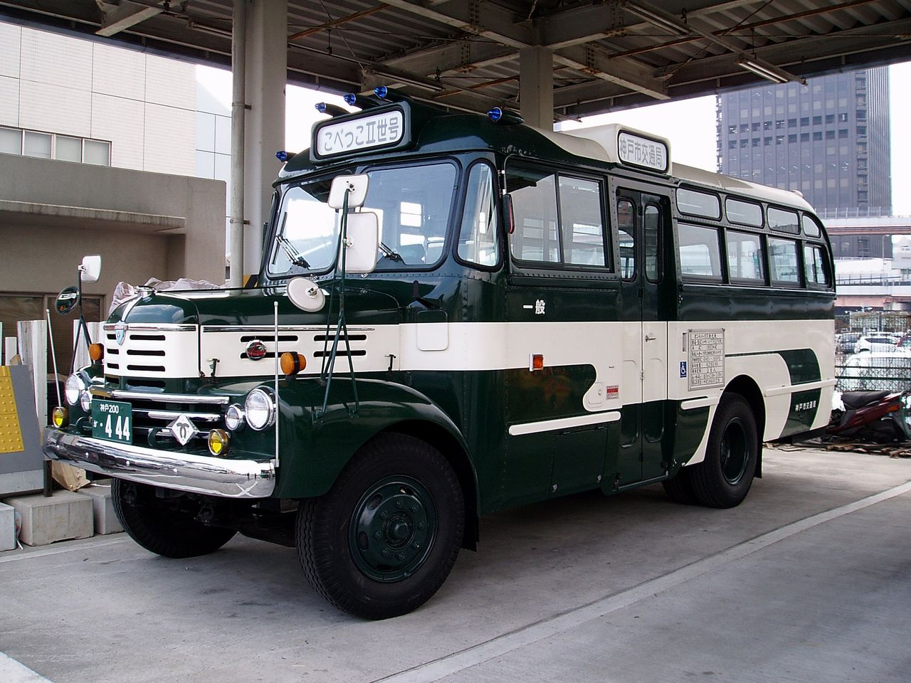 Kobe City Bus "Kobekko II" 1993 Isuzu U-FTR32FB (Forward) truck fitted with an old Isuzu BX bus body at Chuo Branch This picture is obtaining and photoing permission of the persons concerned.